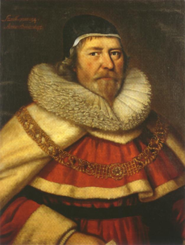 Sir John Bankes, own work, edited image of personal photograph taken from portrait of Sir John in Kingston Lacy, Dorset. Portrait by Gilber Jackson.